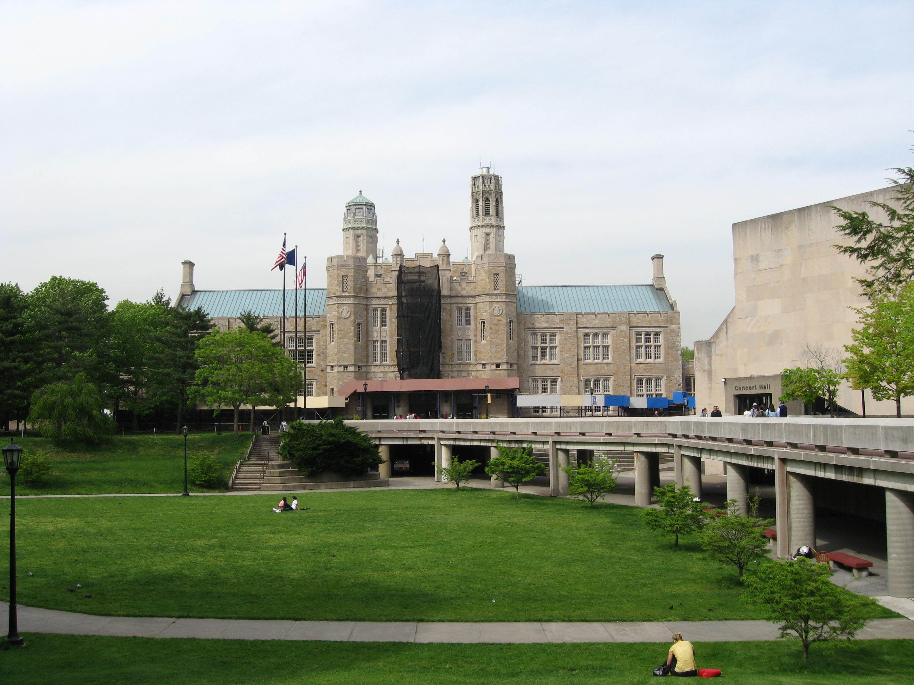 Looking north at plaza and Lehman College Music Building on a cloudy afternoon.